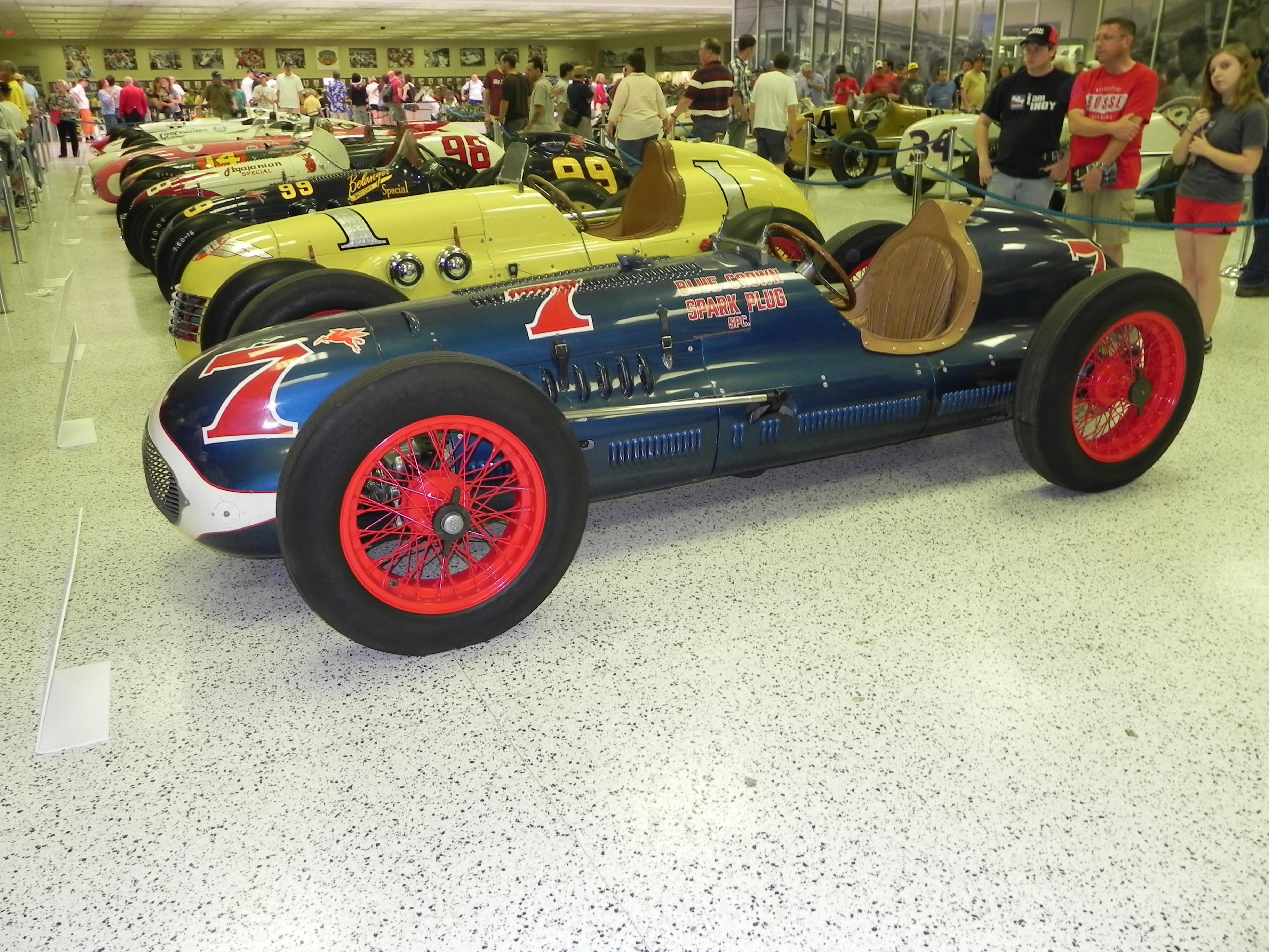 Image of the winning car of the 1949 Indianapolis 500 (Bill Holland). Photo was taken at the Indianapolis Motor Speedway Hall of Fame Museum, during the month of May 2011, at the 100th Anniversary "Ultimate Indianapolis 500 Winning Car Collection."